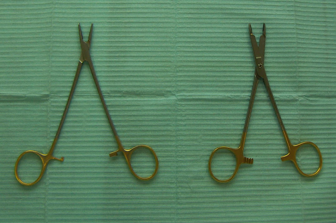 Needle holder